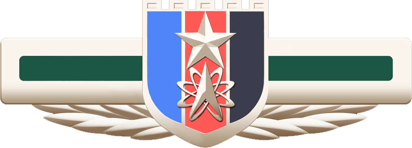 Emblem of People's Liberation Army Strategic Support Force 中国人民解放军战略支援部队标志